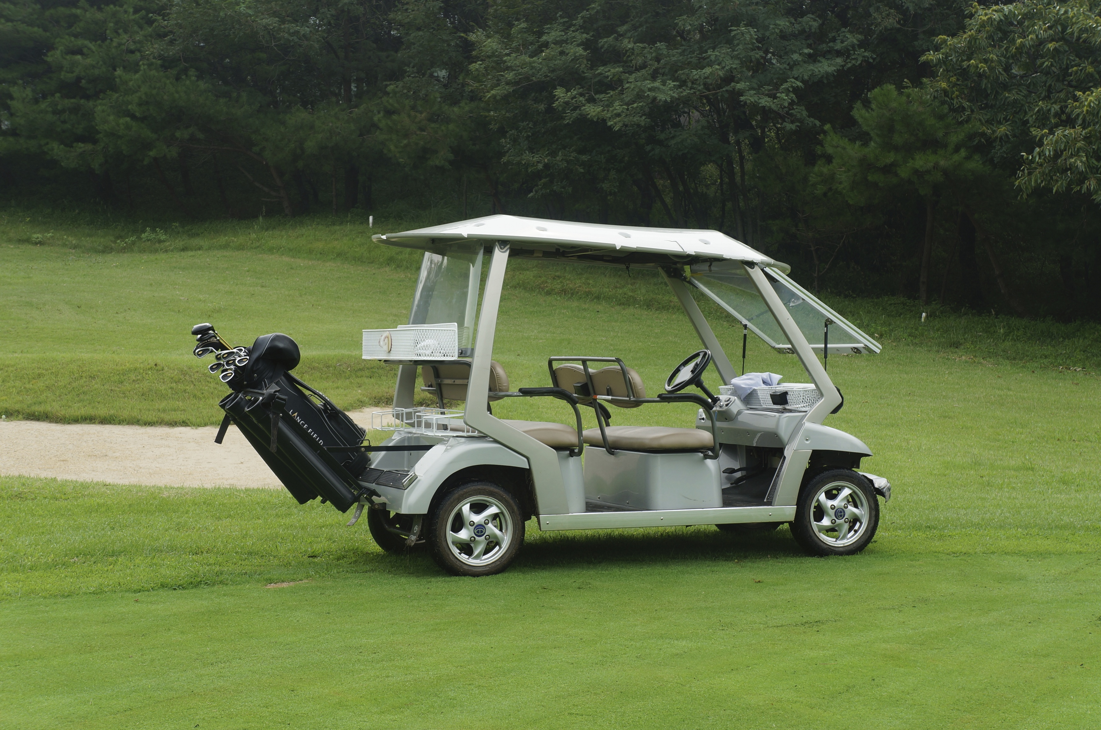 18-hole golf course spans 45 hectres (111 acres) and is located on Lake Taesong in Ryonggang County, North Korea. The Pyongyang Golf Course was completed in 1988